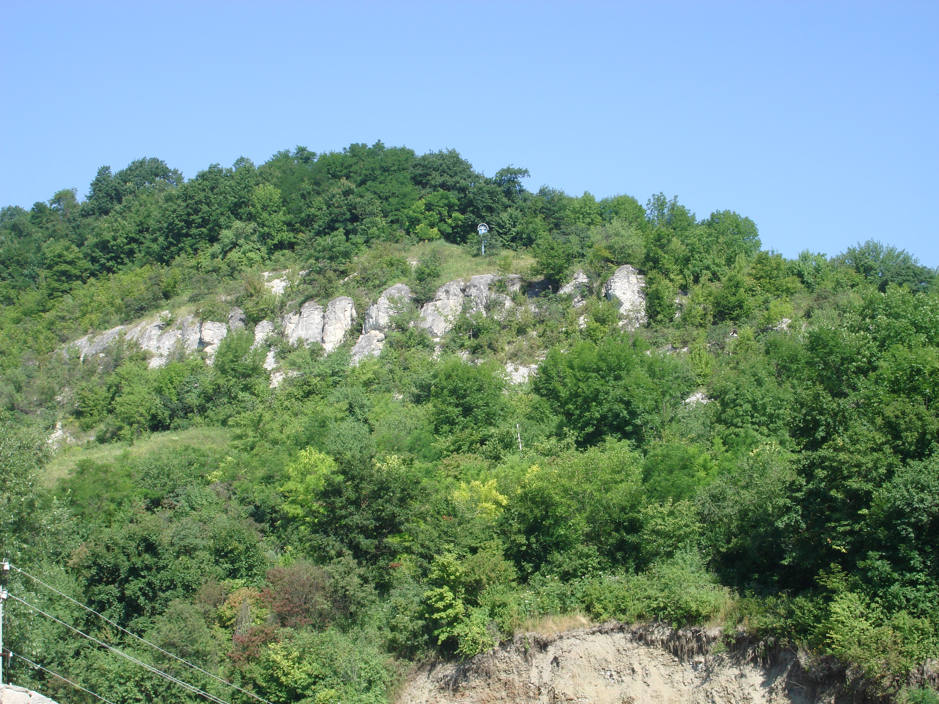 Călărăşeuca monastery, Moldova